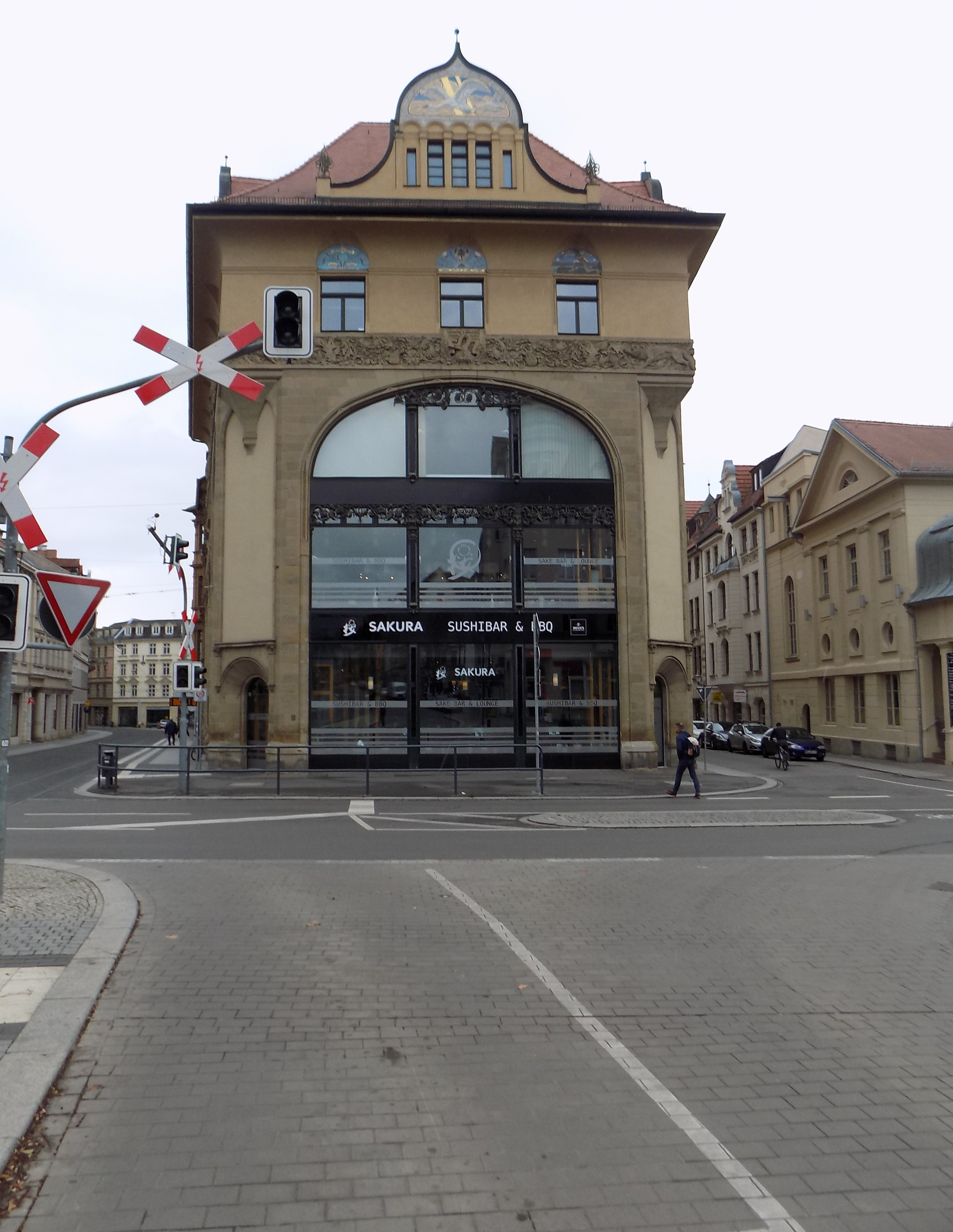 No. 33, Grosse Ulrichstrasse in Halle/Saale (Saxony-Anhalt)